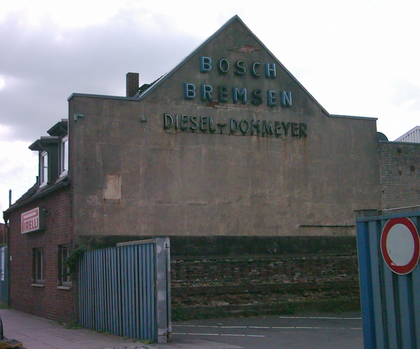 Old illuminated advertising Bosch, Hamburg, Germany.